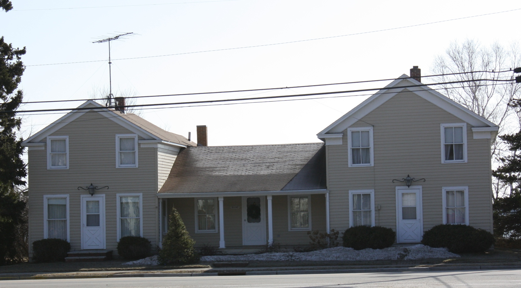 The Globe Hotel (Baileys Harbor, Wisconsin) in Door County, Wisconsin, listed on the National Register of Historic Places.